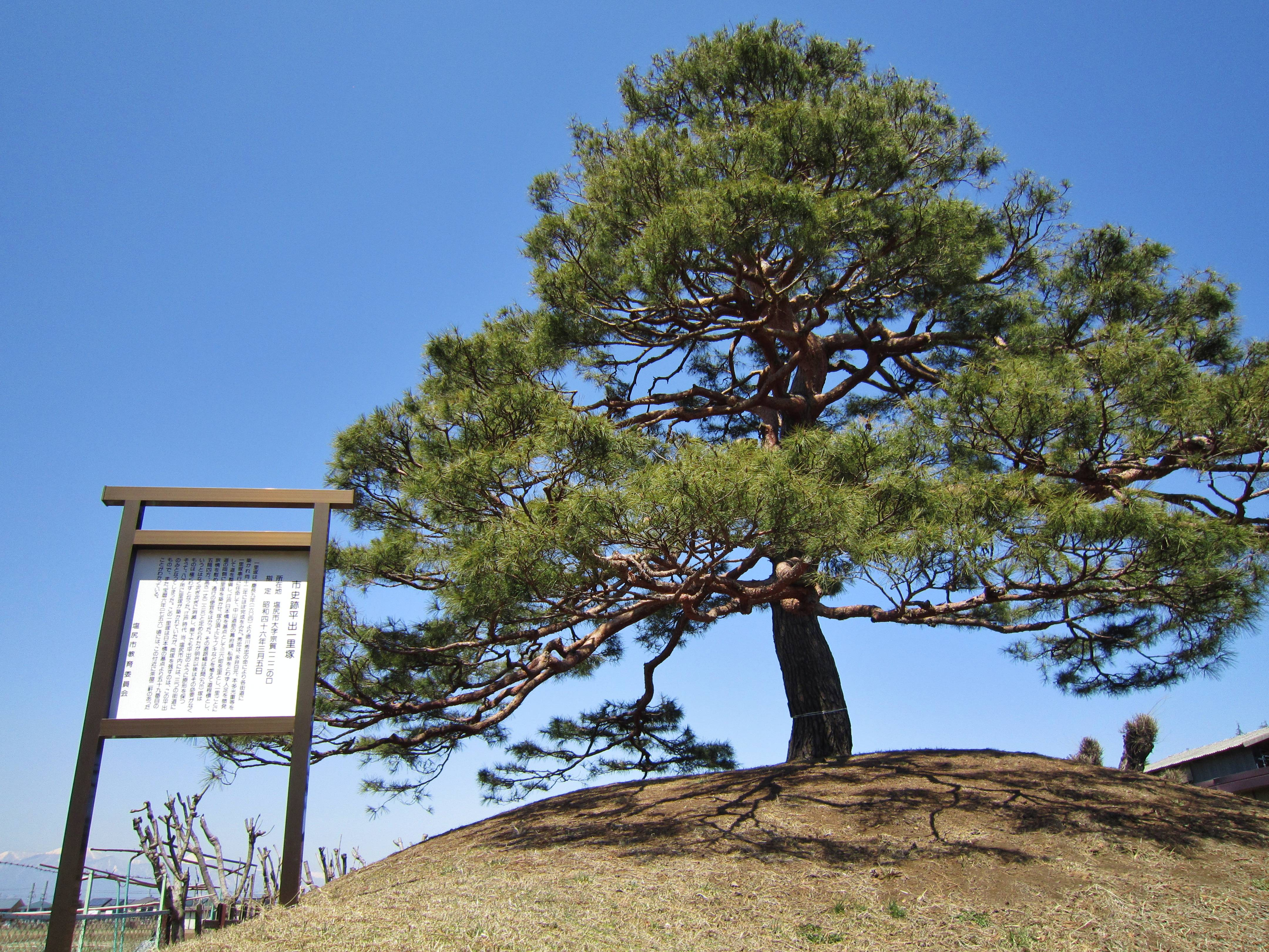 Hiraide Ichirizuka on the Nakasendō